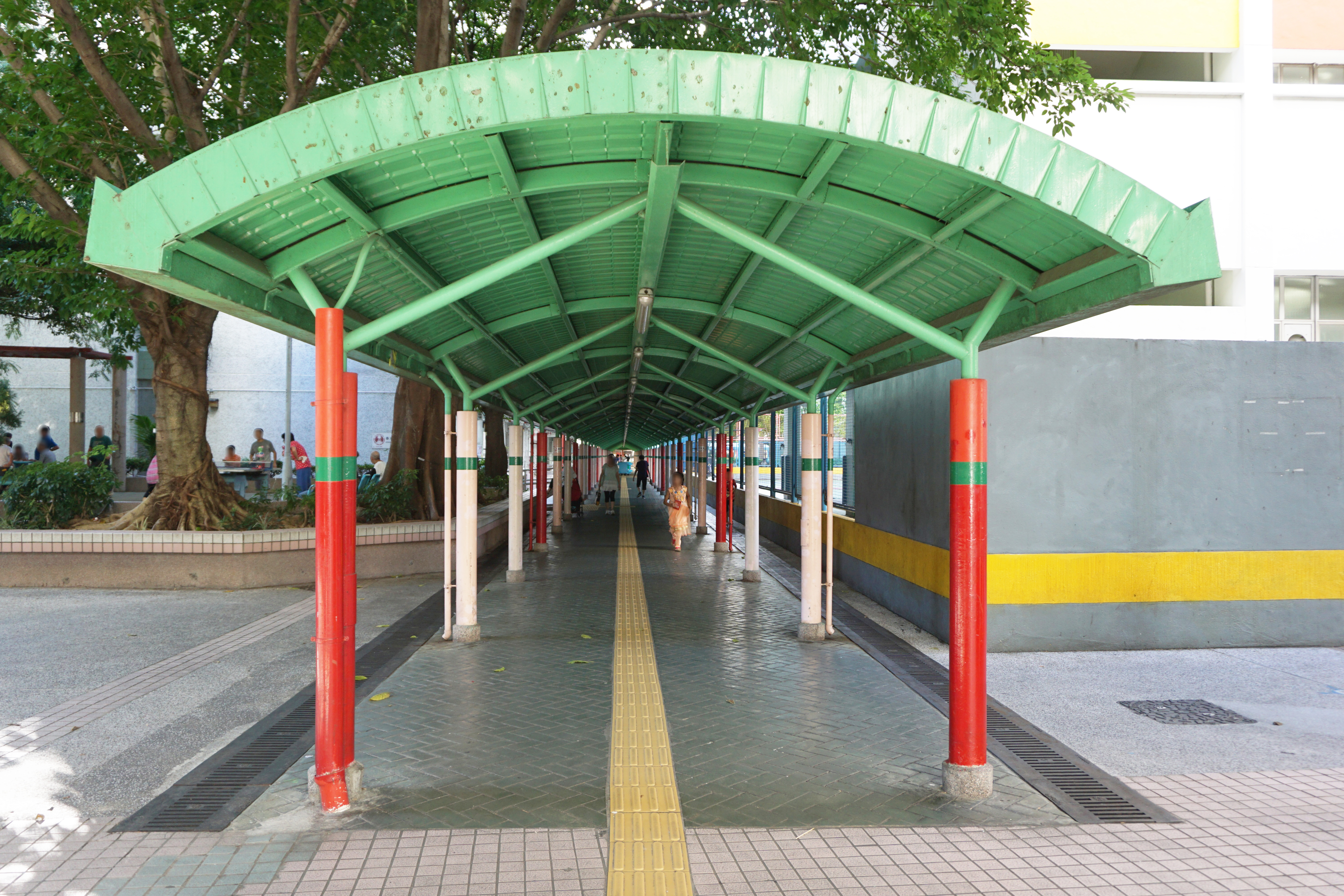 Kwai Fong Estate in Kwai Chung, Hong Kong.